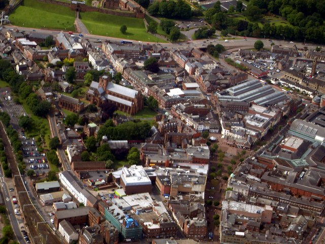 An aerial photograph of Carlisle, Cumbria, England.